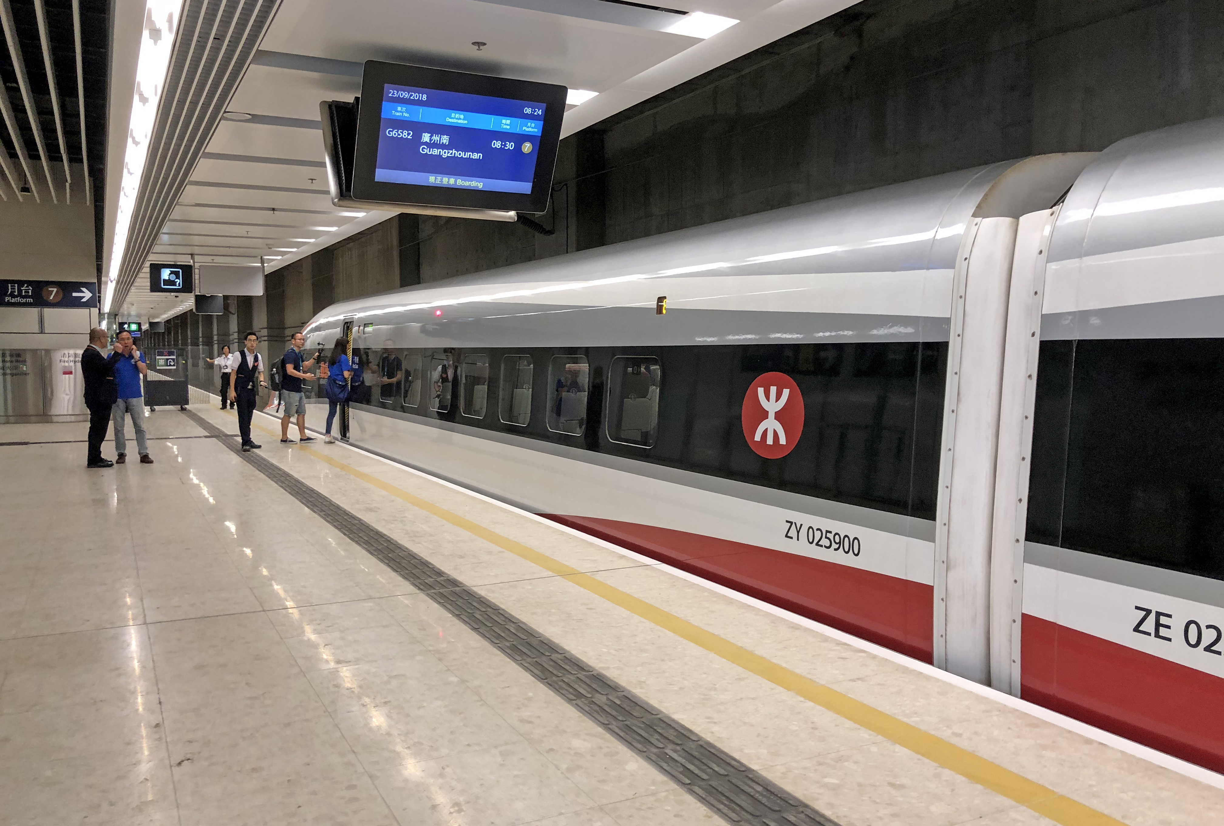 G6582 to Guangzhou South, waiting for departure at Platform 7 - the front is blocked, so no further photos are available.